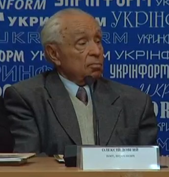 Oleksiy Dovhyi, Ukrainian poet and translator